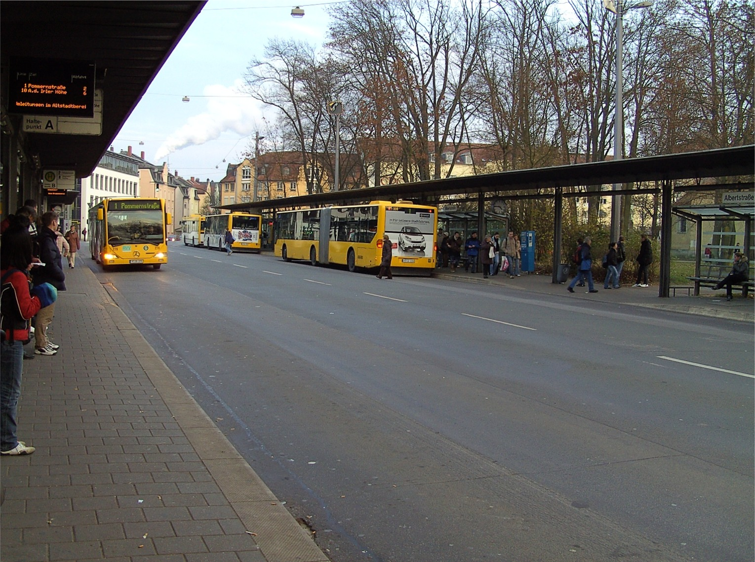 Bus station in Regensburg, Germany.